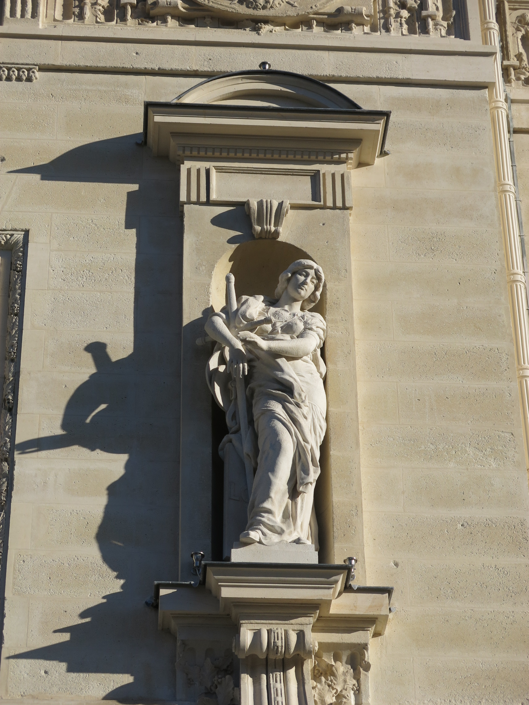 One of the 4 statues on the south wall of the palais de Justice, quai des Orfèvres in Paris : the Mercy (1914).